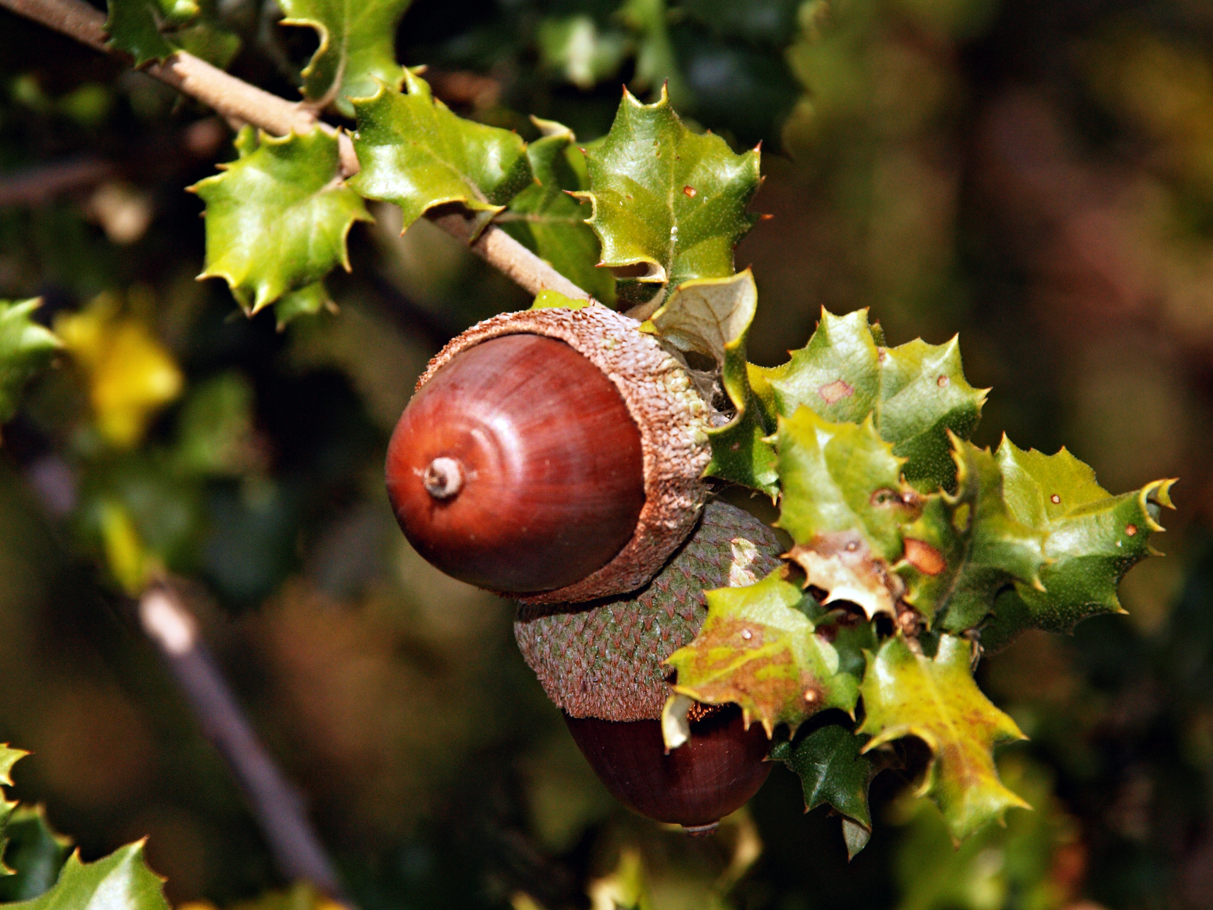 Montegrosso (Corsica) - Quercus coccifera - acorns